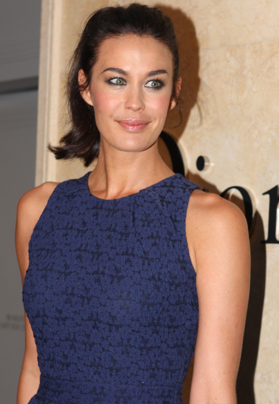 Megan Gale at the Christian Dior couture opens Sydney CBD store in January 2013.